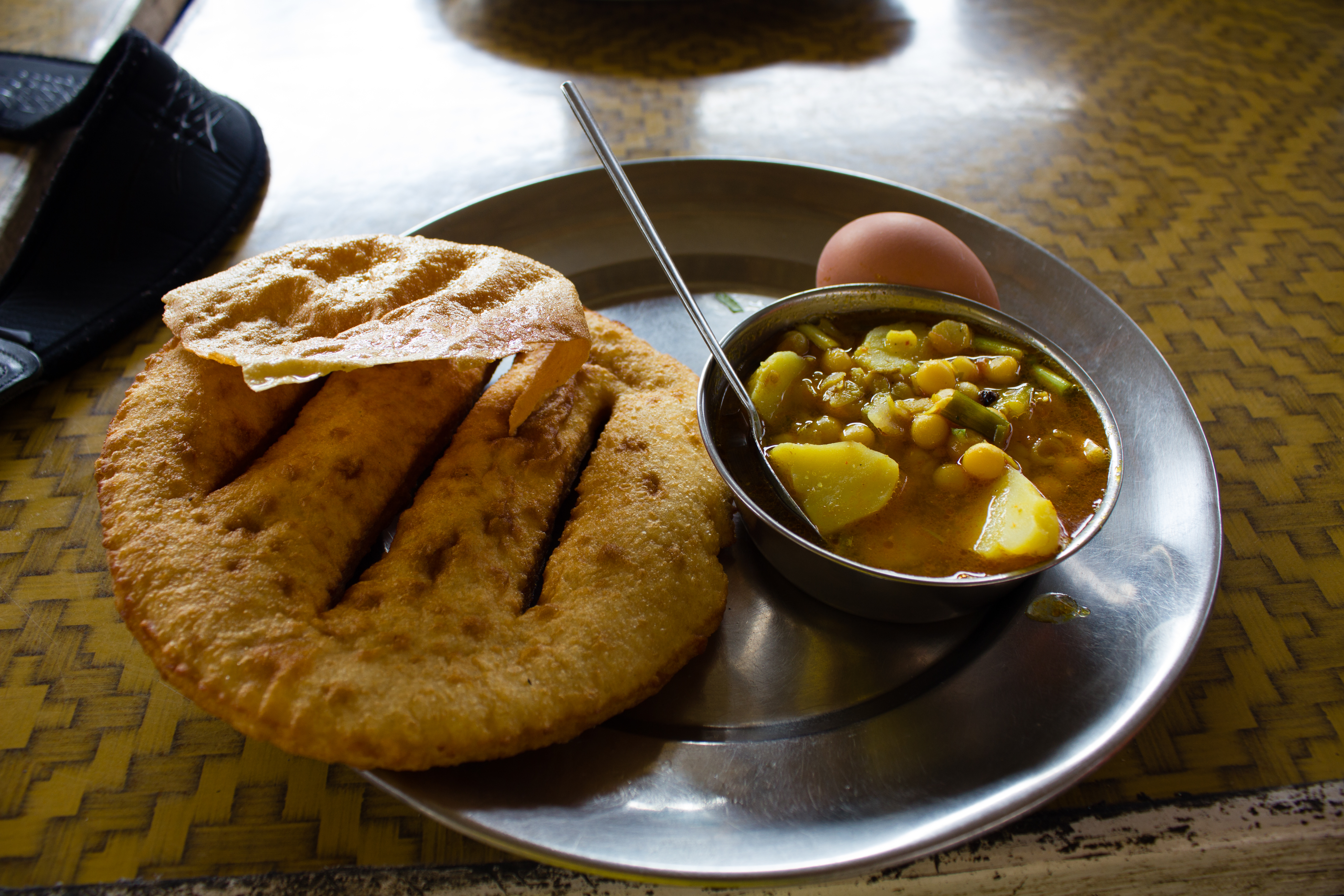 Just Rs 128 only. IMG_9257